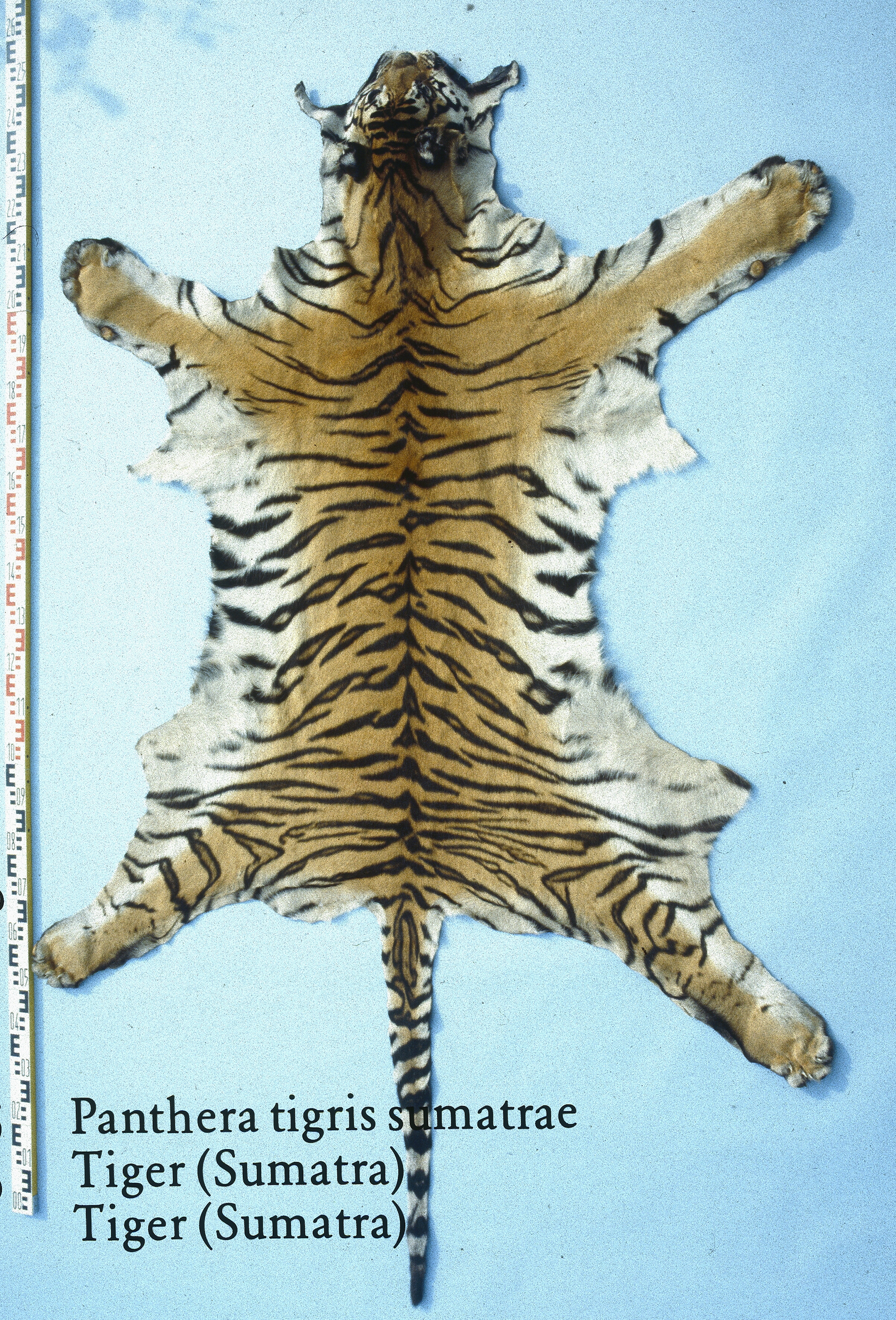 Tiger (Sumatra) (Panthera tigris sumatrae). Fur skin collection, Bundes-Pelzfachschule, Frankfurt/Main, Germany